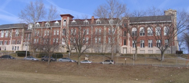 Palmer Chiropractic College